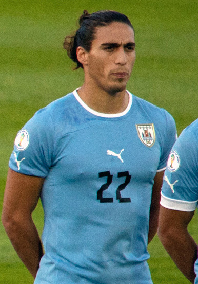 Uruguayan football player, Martín Cáceres, singing the uruguayan national anthem before playing for the national team against Chile in the 3rd matchday of the 2014 FIFA World Cup southamerican qualifiers in the Estadio Centenario of Montevideo.